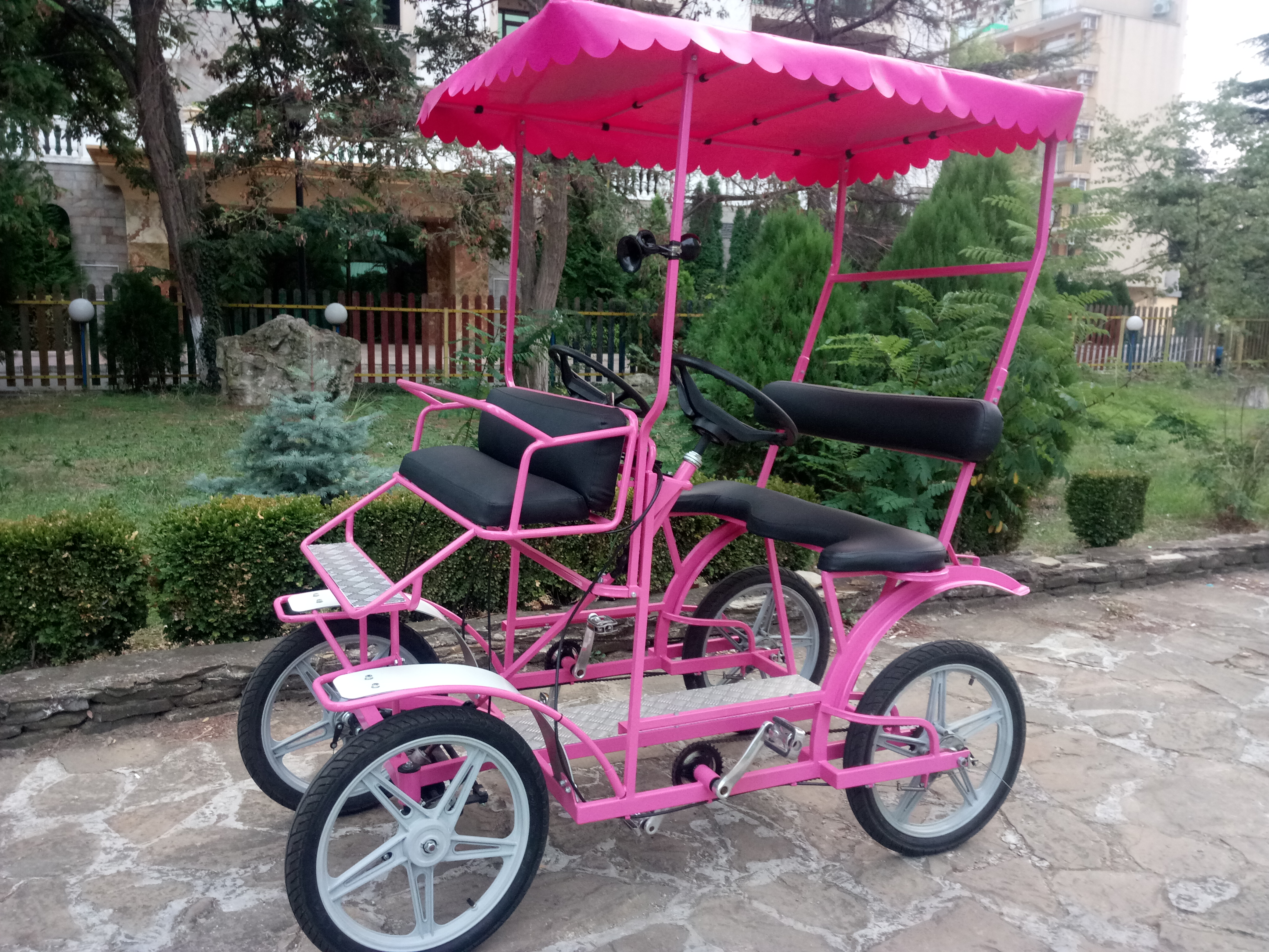 The Single Bench Classic Surrey, accommodating up to 3 adults and 2 small children, provides families with the opportunity to enjoy the outdoors and get exercise together.